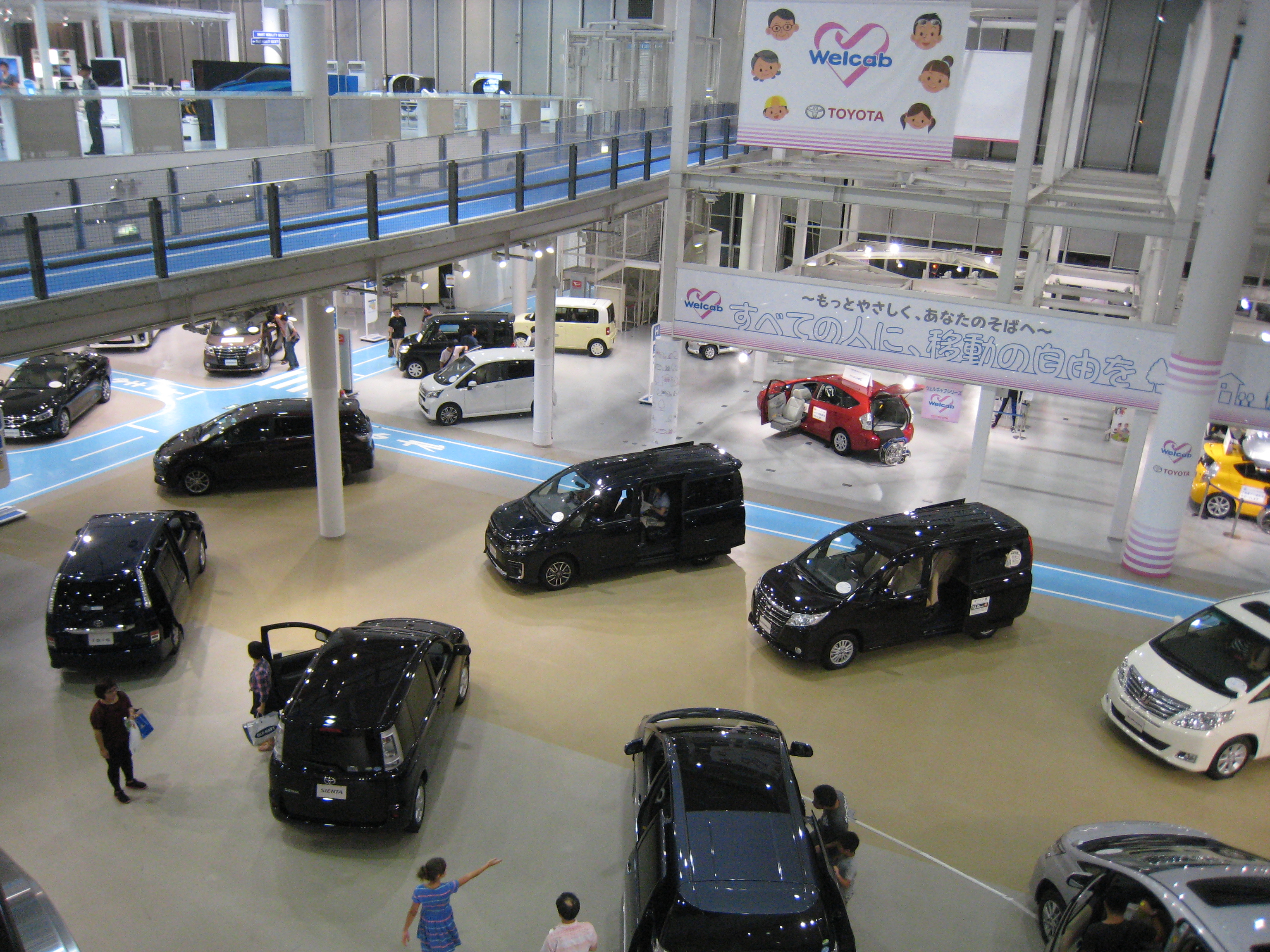 Toyota shop in Tokyo